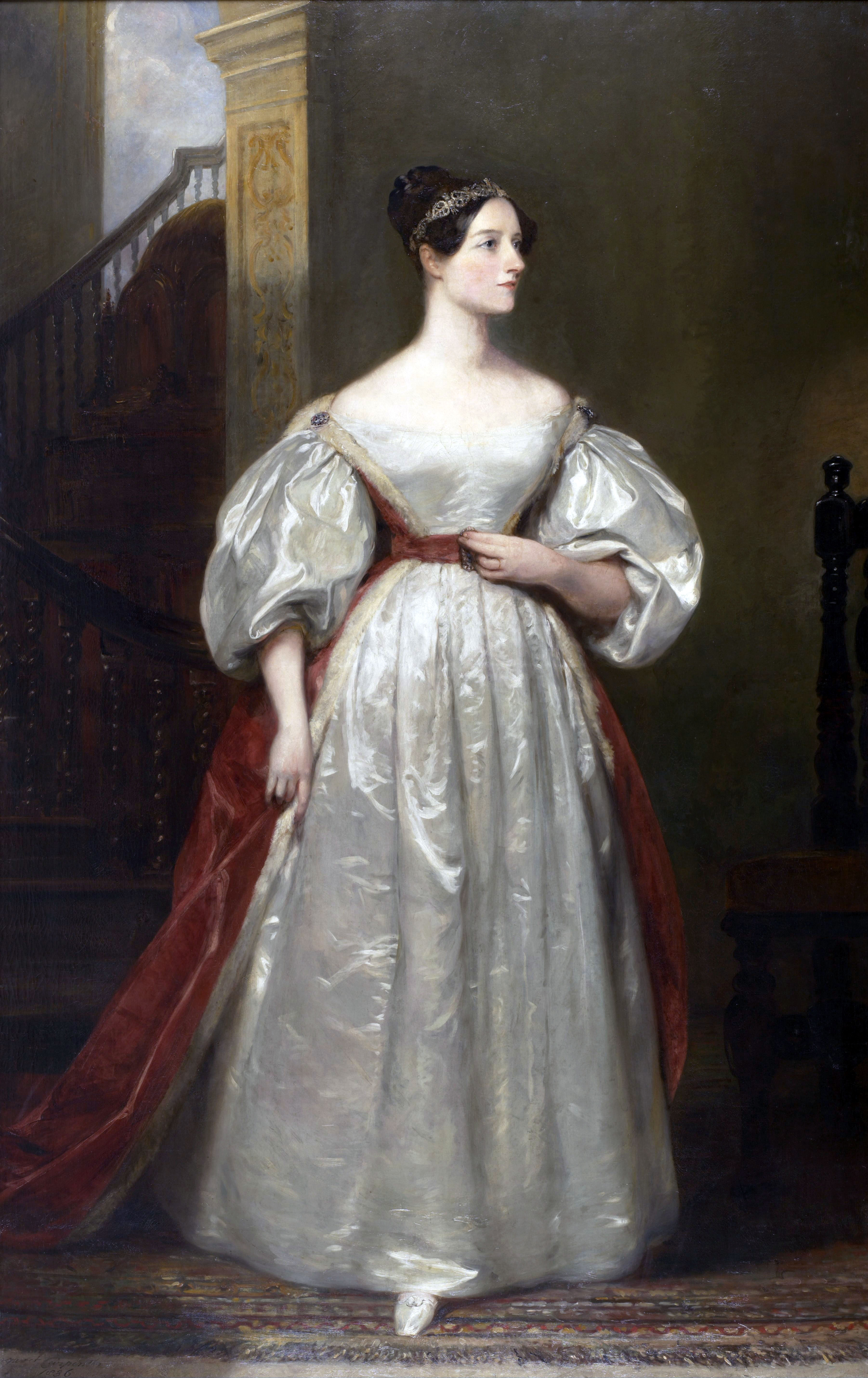 Depicted person: Ada Lovelace Ada Augusta Byron, only daughter of Lord Byron. She married William King in 1835. They became earl and countess of Lovelace in 1838. Ada Lovelace was an avid mathematician and is often called the first computer programmer, after she wrote an algorithm for Charles Babbage's Analytical Engine.